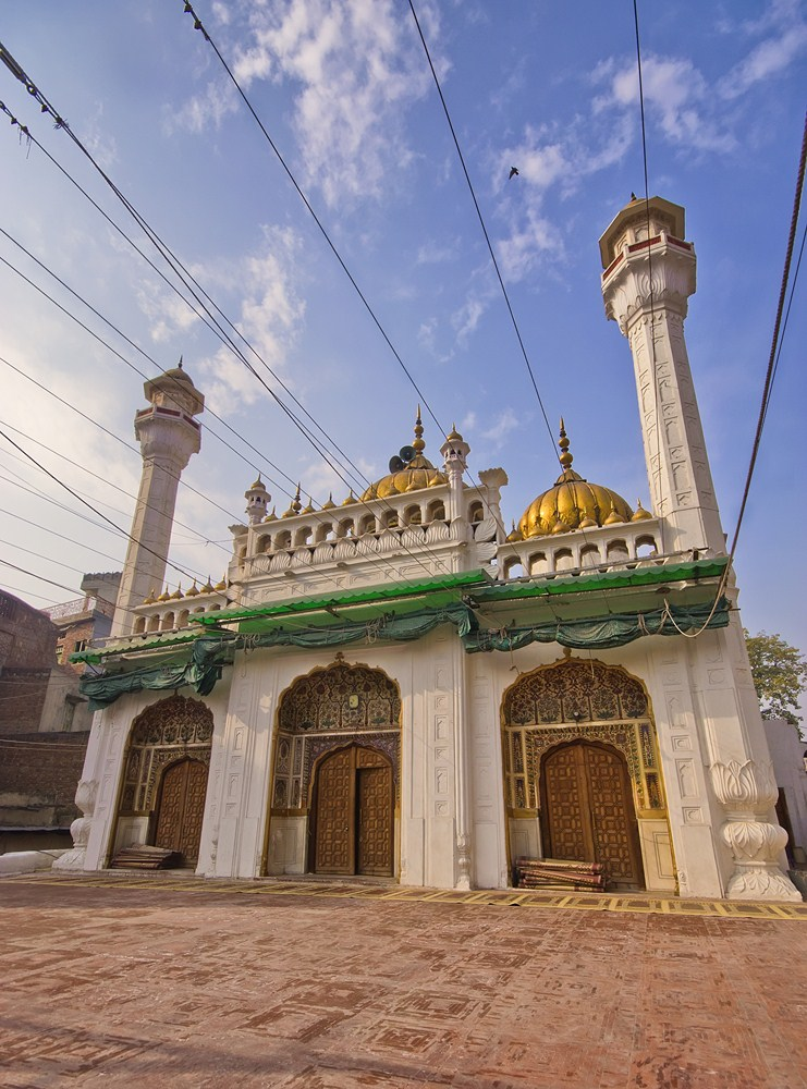 Sunehri Masjid (The Golden Mosque) This is a photo of a monument in Pakistan identified as the PB-P-97